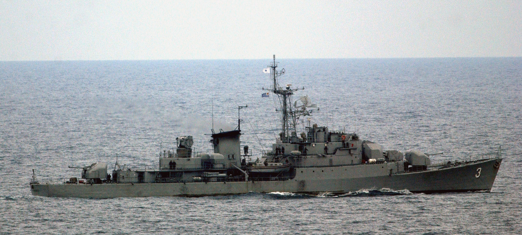 A starboard side view of the Uruguayan Navy COMMANDANT RIVIERE CLASS: Frigate, MONTEVIDEO (FFG 3), cropped from: South Pacific Ocean (June 16, 2004) – An SH-60F Seahawk assigned to the “Indians” of Helicopter Anti-Submarine Squadron Six (HS-6) flies past the Uruguayan Naval Frigate, Montevideo. HS-6 is embarked on USS Ronald Reagan (CVN 76), which is currently circumnavigating South America to her new homeport of San Diego, Calif. U.S. Navy photo by Photographer’s Mate 3rd Class Kitt Amaritnant (RELEASED)